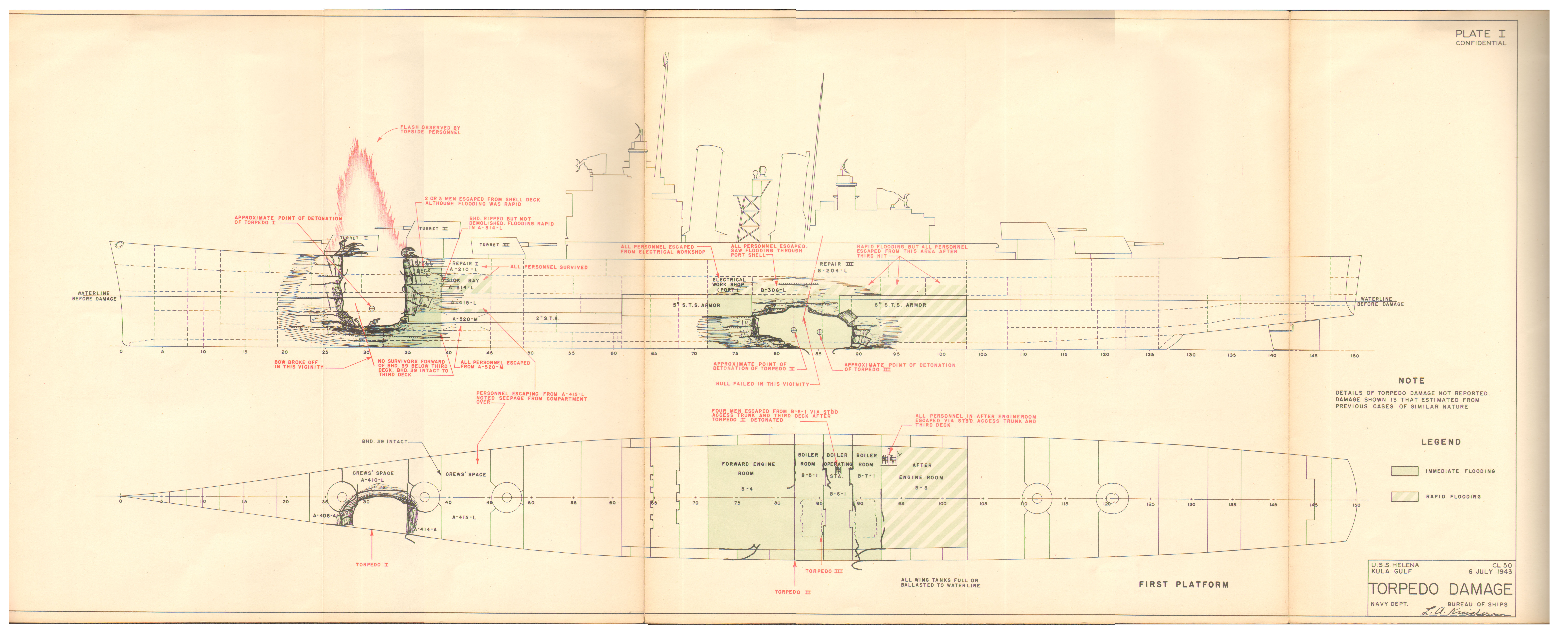 Torpedo damage of the U.S. Navy light cruiser USS Helena (CL-50) in the Battle of Kuly Gulf on 6 July 1943. The bow broke off after the first hit. Minutes later two torpedoes hit amidships after which the ship jacknifed.